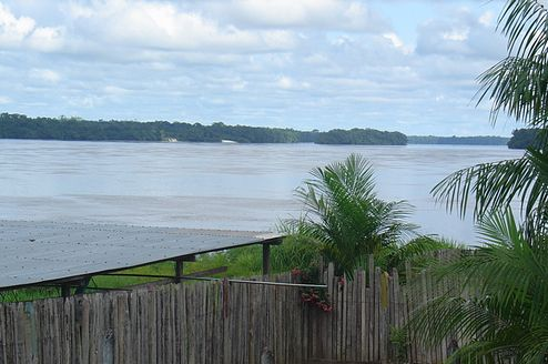 Cabeça do Cachorro: Trijunction point of the Brazilian, Venezuelan and Colombian borders. Picture taken from Brazilian side of the triple border